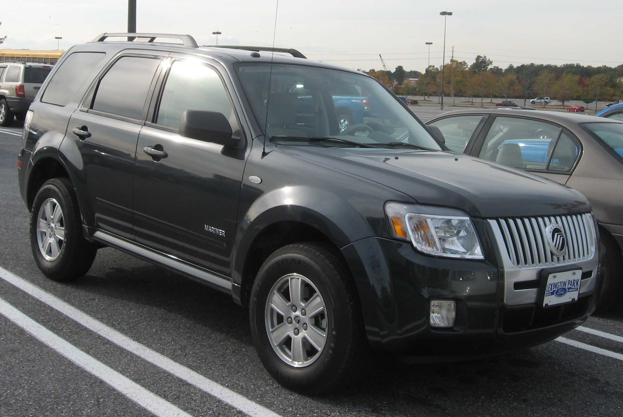 2008 Mercury Mariner photographed in Waldorf, Maryland, USA.